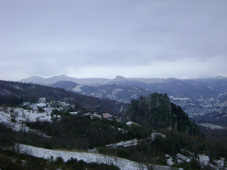 View of Pietraferrazzana